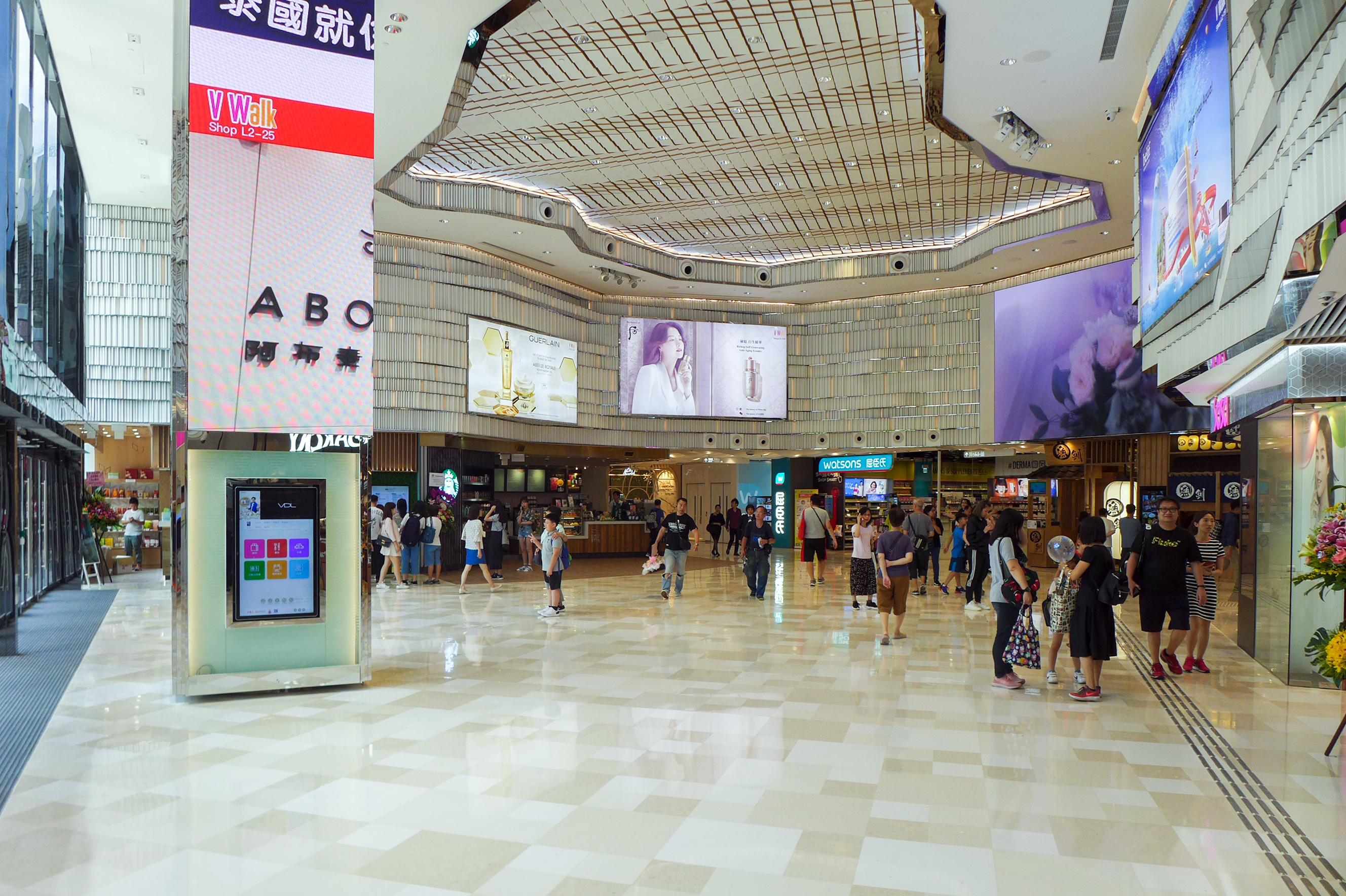 V Walk Entrance Void